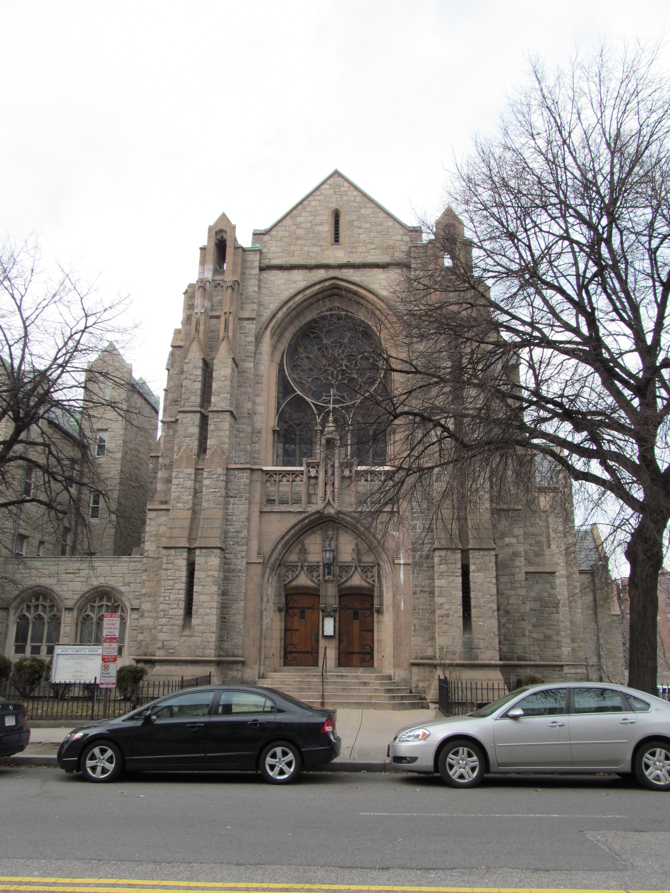 Saint Clement Eucharistic Shrine, Boston Massachusetts